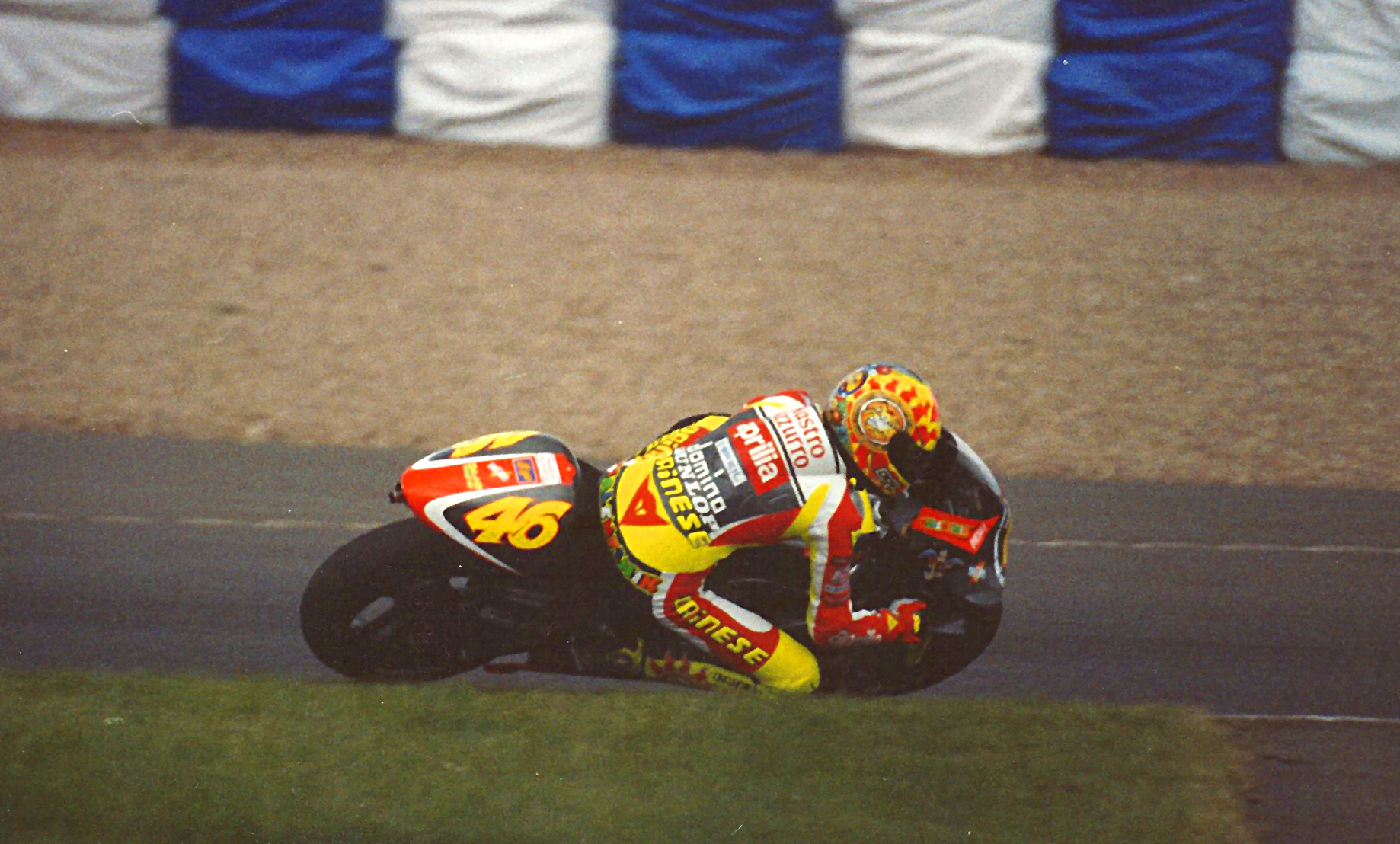 Valentino Rossi, riding his 250cc Nastro Azzurro Aprilia at the 1999 British Grand Prix.